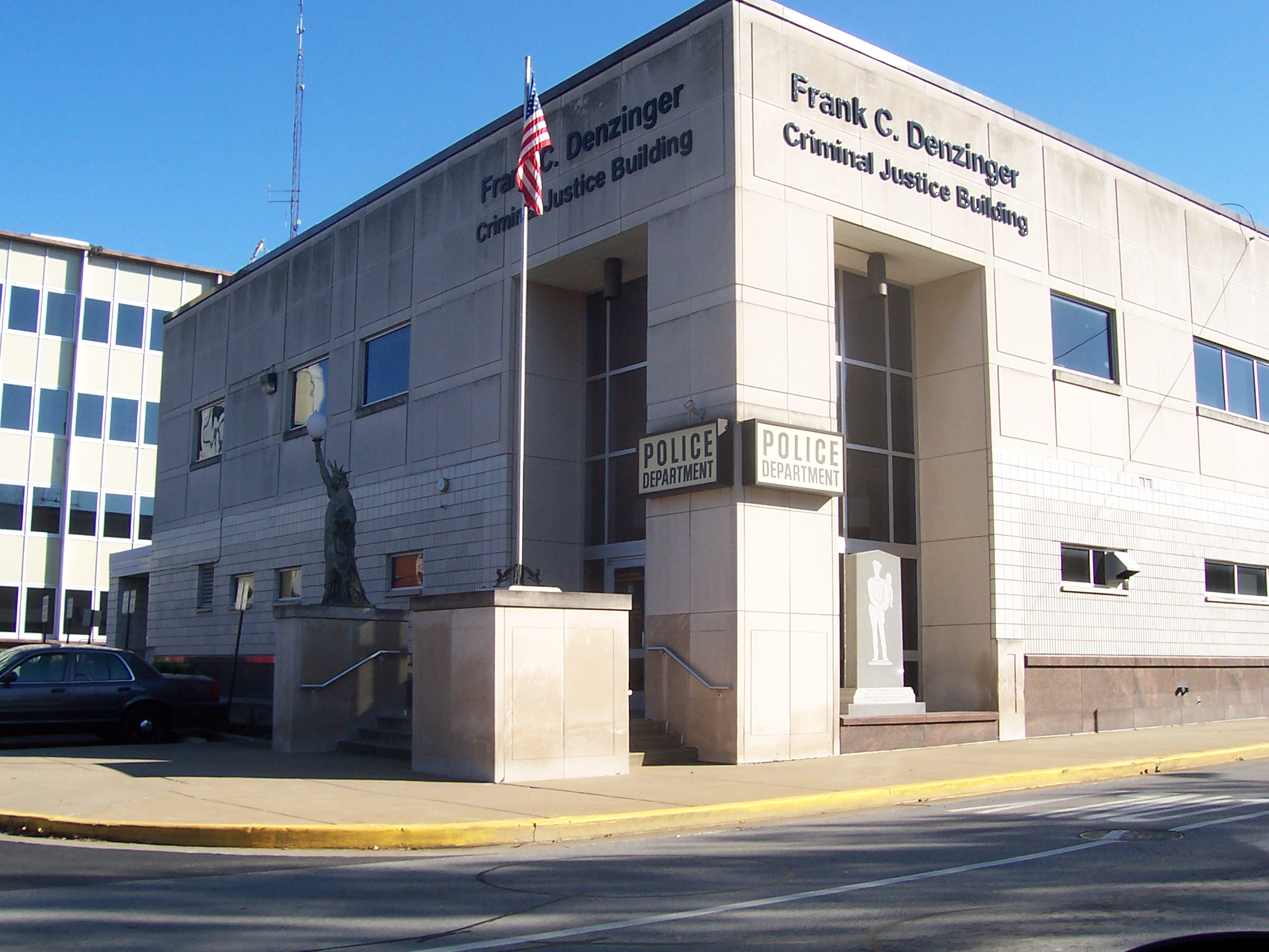 New Albany Indiana police station